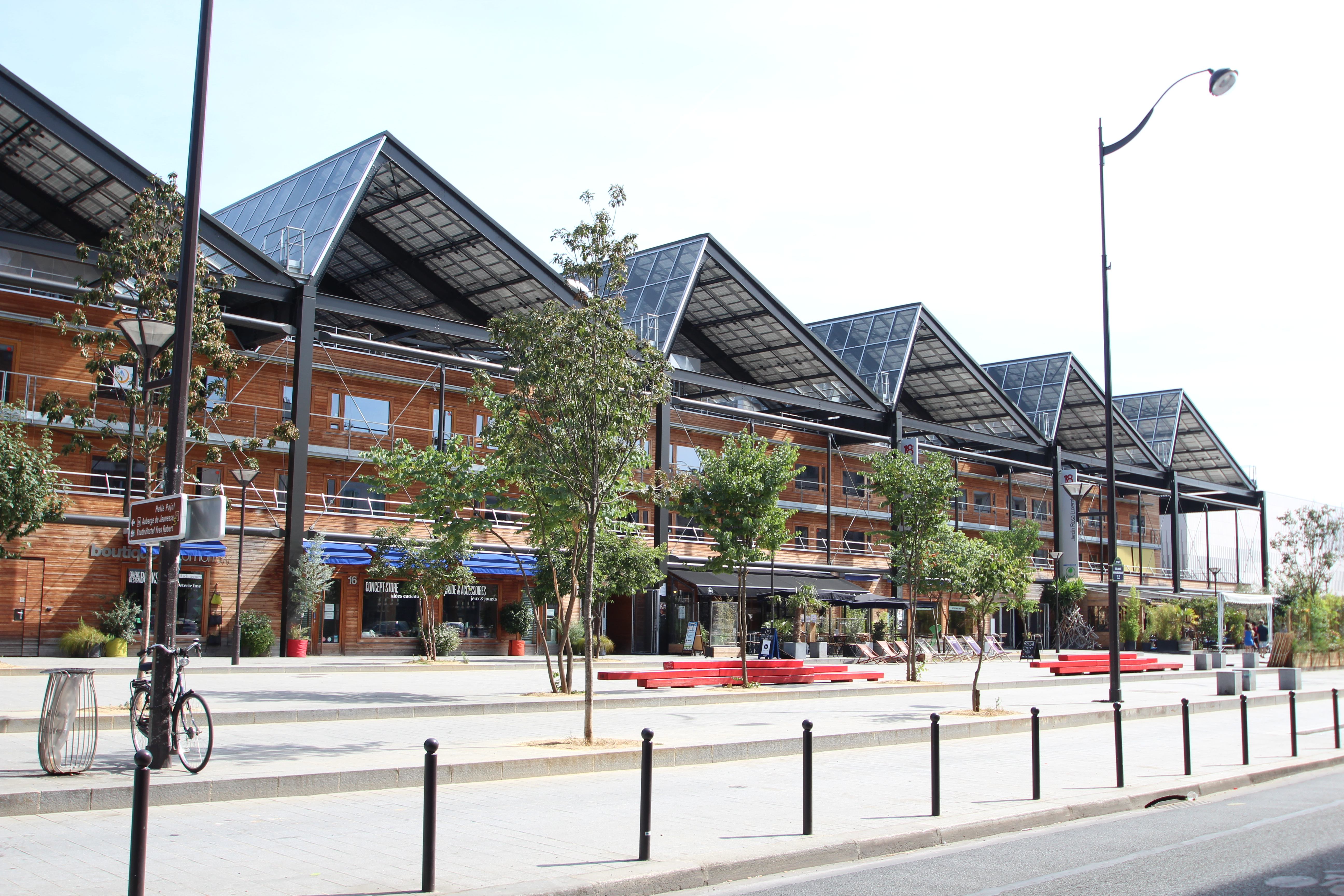 Halle Pajol in Paris, France. Object location48° 53′ 18.42″ N, 2° 21′ 46.51″ E This picture as been uploaded as part of L'Été des régions Wikipédia.